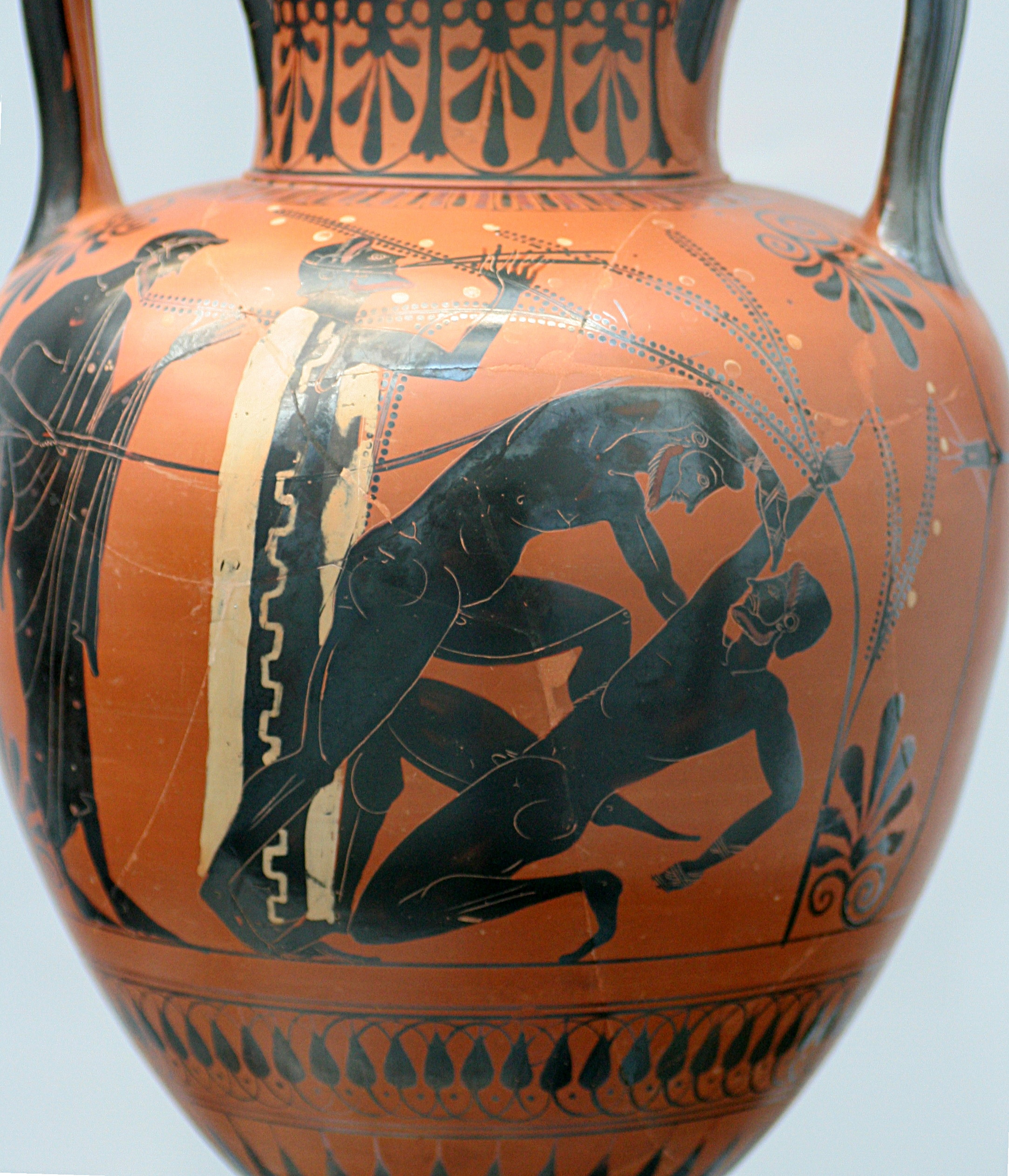 Boxers and trainer. The right boxer goes down and gives up by holding up his finger. Nevertheless, his opponent continues to press him, and is therefore beaten by the referee to the left with a long rod. Side A of an Attic black-figure neck-amphora, 510–500 BC. From Vulci.